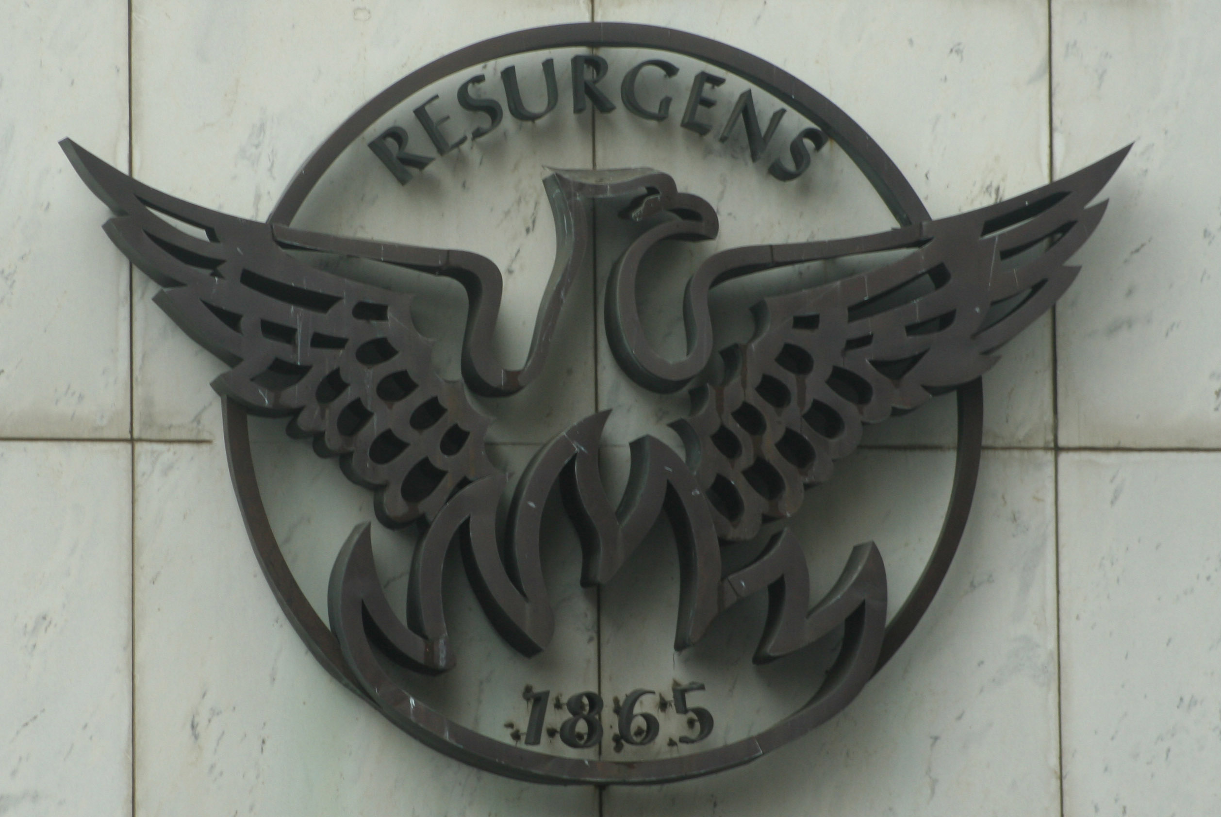 Atlanta City emblem